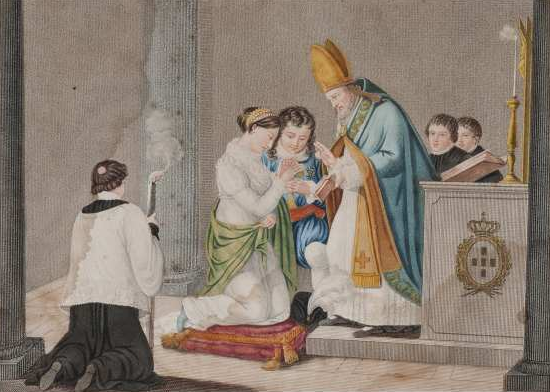 The Secret Wedding, lithograph by J. Duthé, showing the wedding of Inês de Castro and Prince Peter of Portugal.